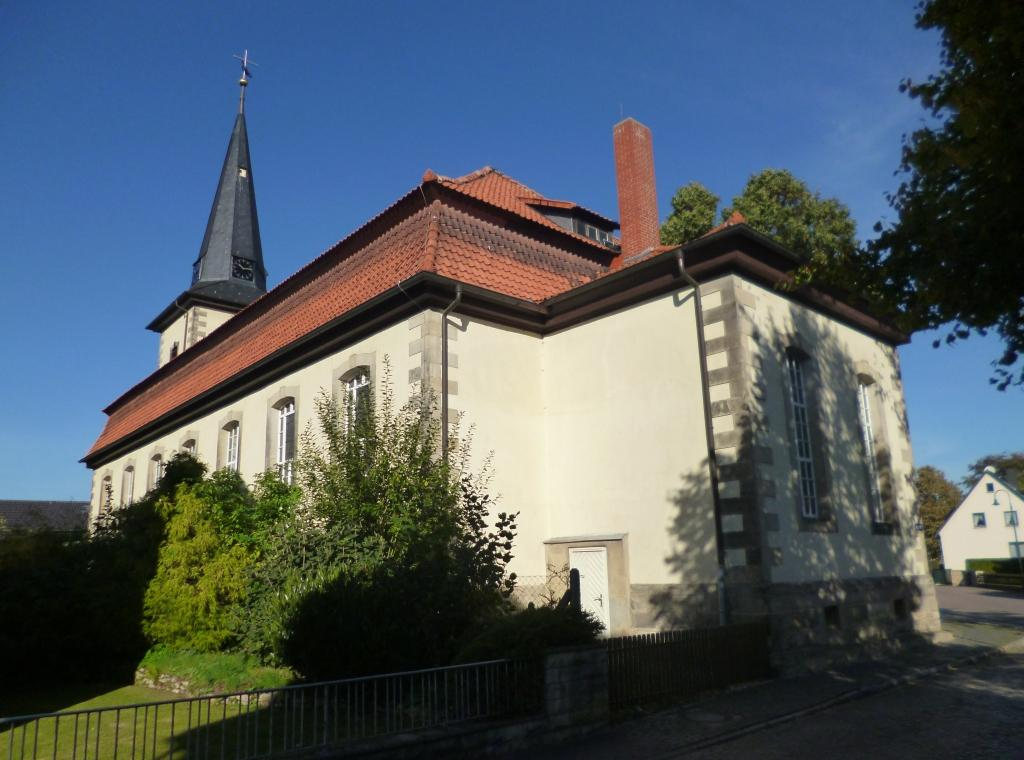 Banteln, church